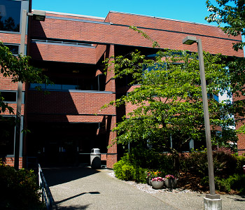 SPU SBGE